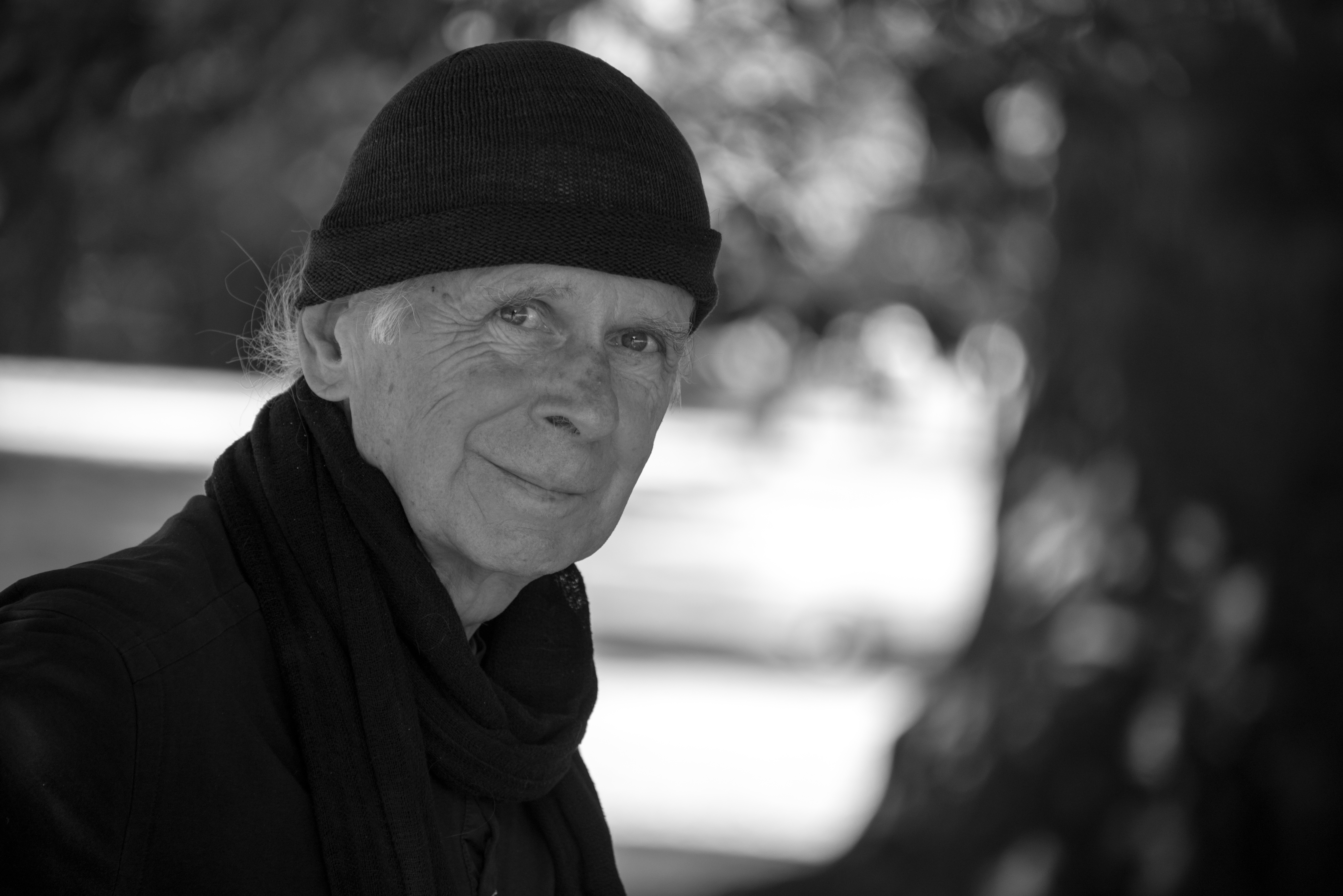 Frank Grüttner, photographed in Frankfurt am Main in 2018.